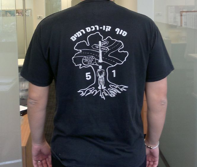 אורן פטוקה סוף קו רכס רמים אוגוסט 1991